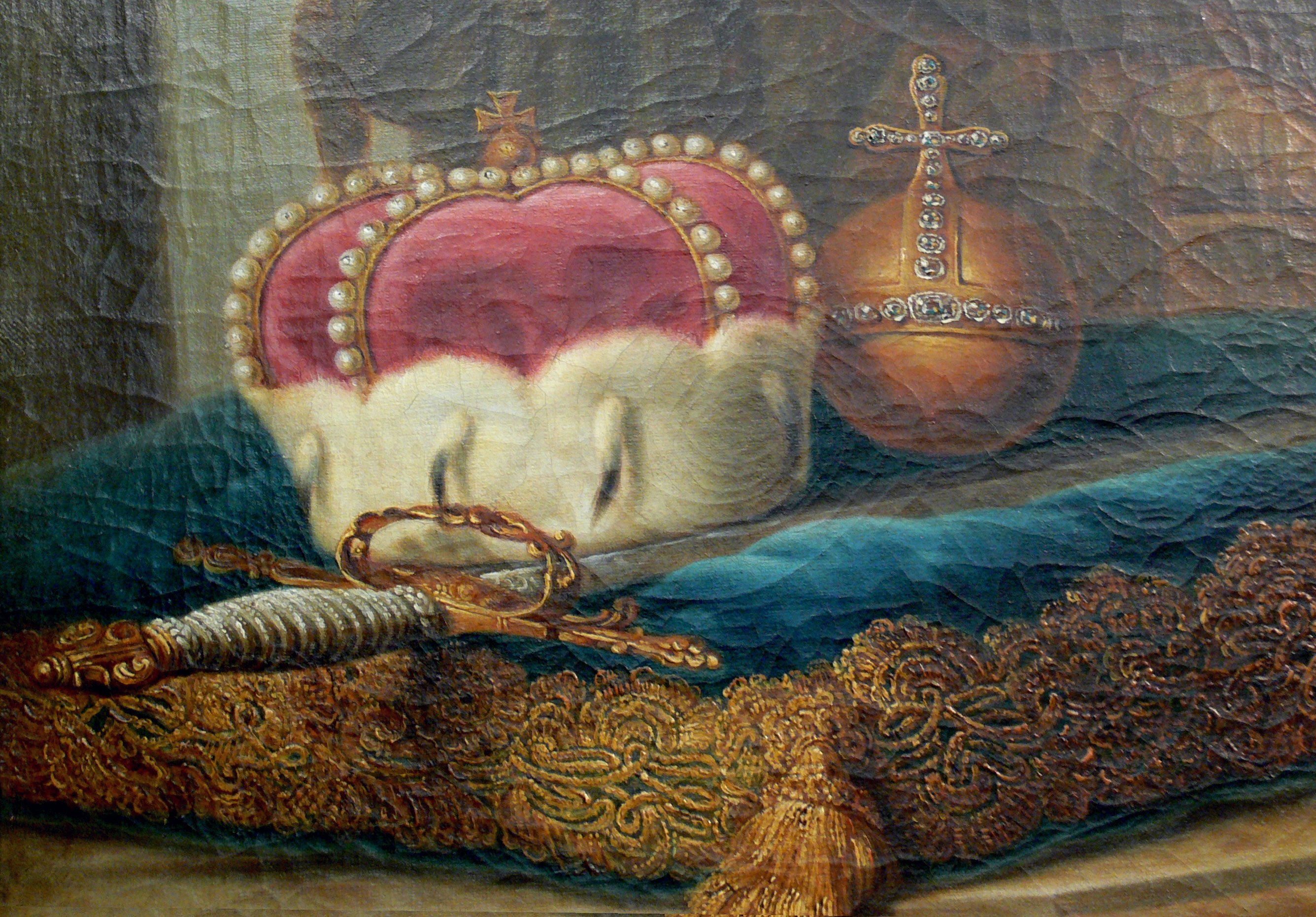 Kurhut, Reichsapfel, Schwert. Detail from: Heinrich Carl Brandt: Porträt des Kurfürsten Carl Theodor, 1781. Nach Pompeo Batonis Gemälde von 1774 mit Änderungen (u. a. wurde die Reichskrone durch den Reichsapfel ersetzt).